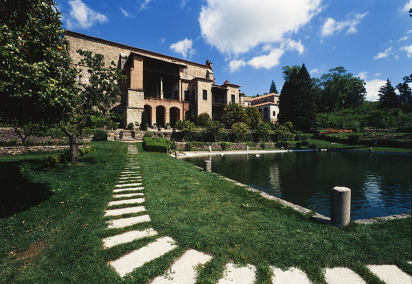 Ref.: PMa_E_280_Yuste; Cultural heritage; Europe|Spain|Yuste; Monasterio de Yuste; Cuacos de Yuste; Spain; Extremadura, Càceres; Photographer: Paul M.R. Maeyaert; © Paul M.R. Maeyaert